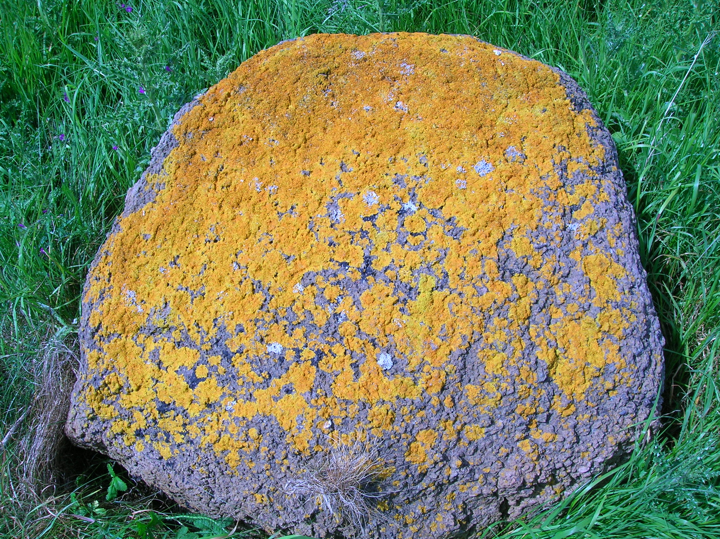 The lichen Caloplaca marina at Ardrossan North Beach, Ayrshire, Scotland.